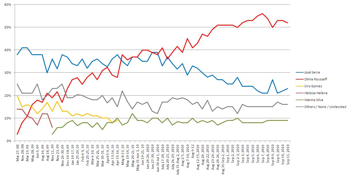 Graphic showing results of presidential polls in Brazil (2010).